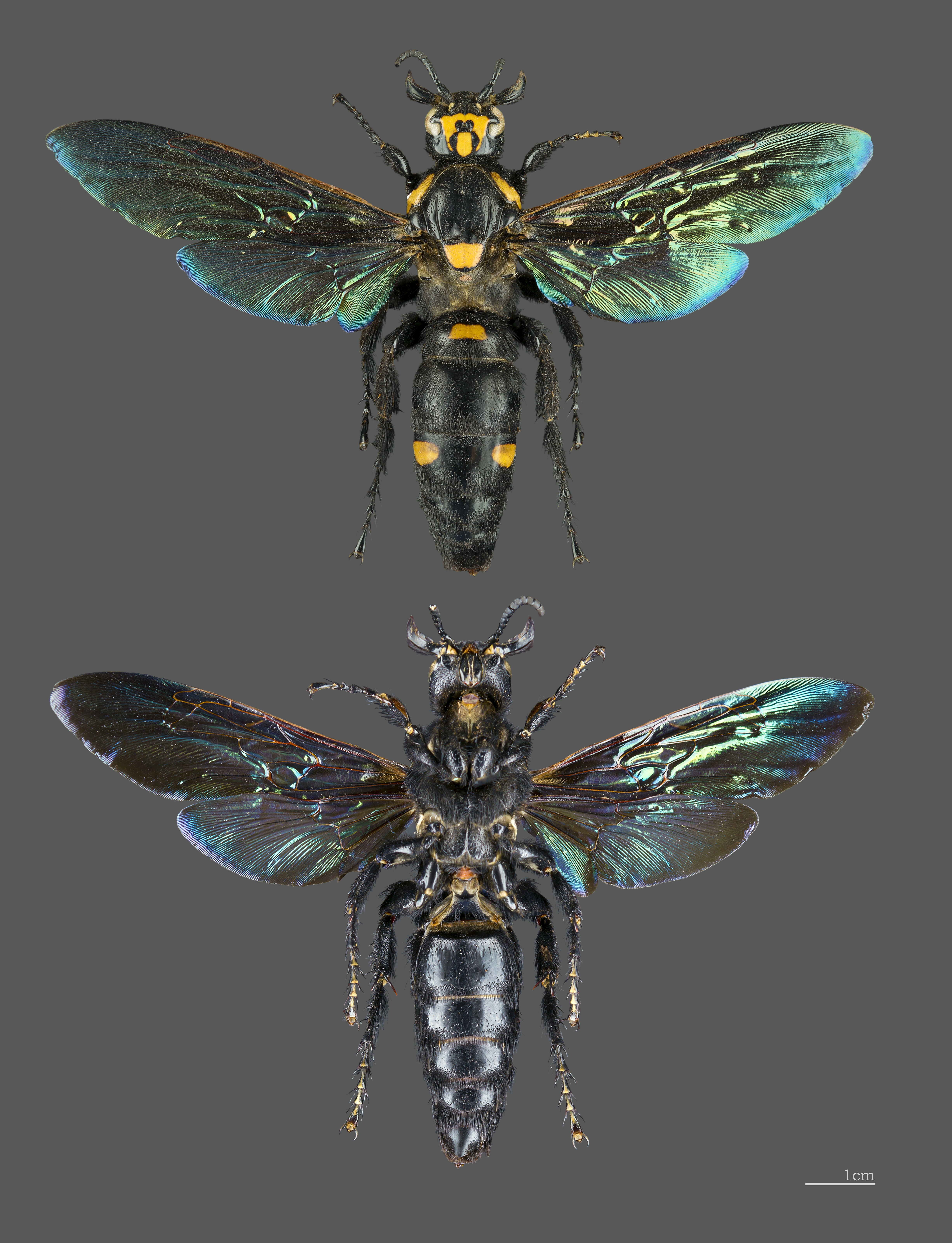 Giant Scoliid Wasp - Two views of same specimen